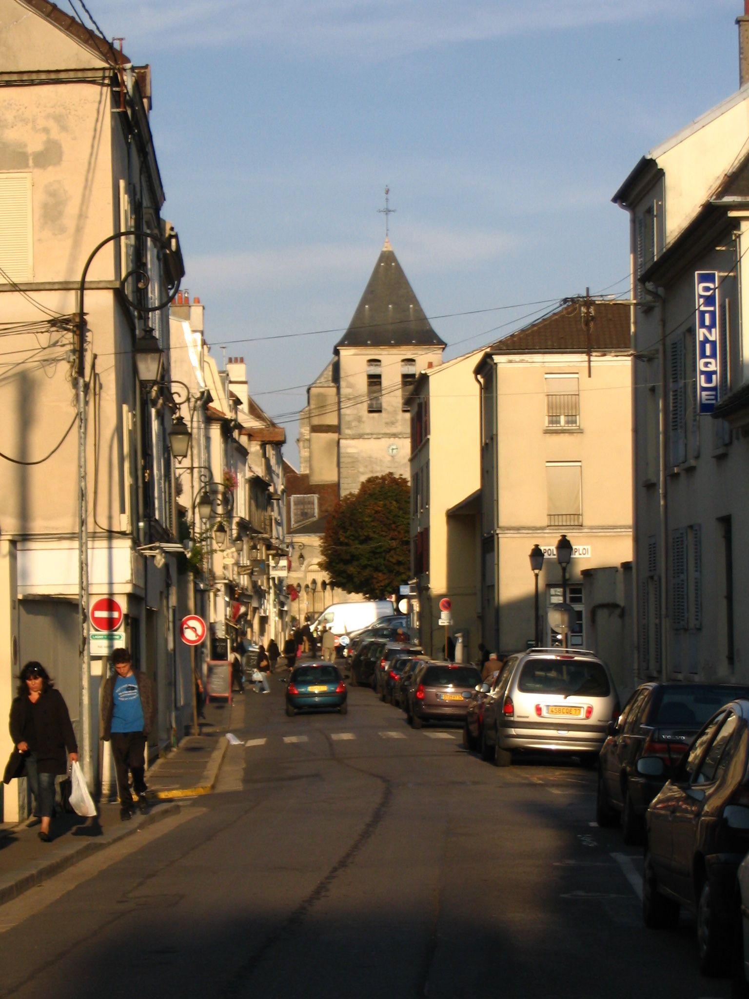 A street in Lagny-sur-Marne, Seine-et-Marne, France.